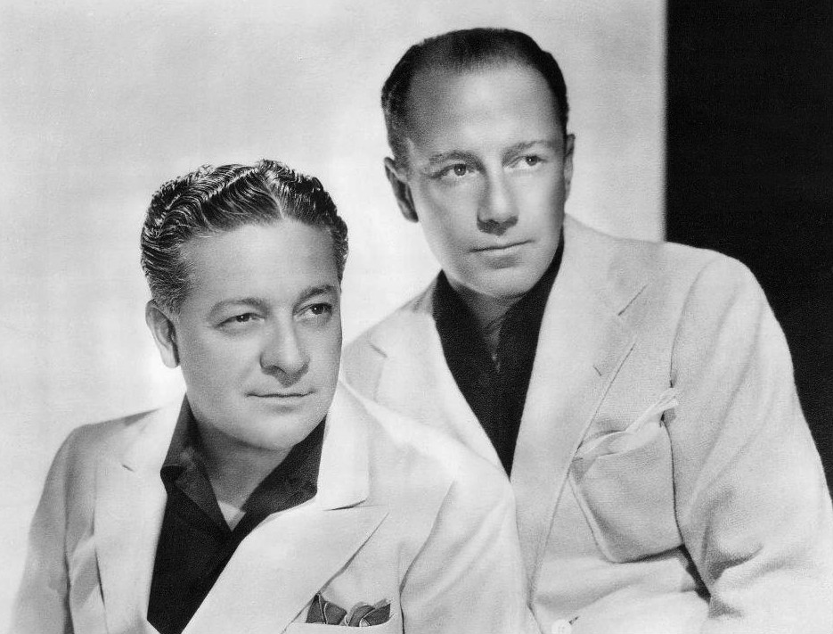 Publicity photo of Charles Correll and Freeman Gosden. This was issued as the program's new sponsor (from Pepsodent to Campbell's) moved the show from NBC to CBS.